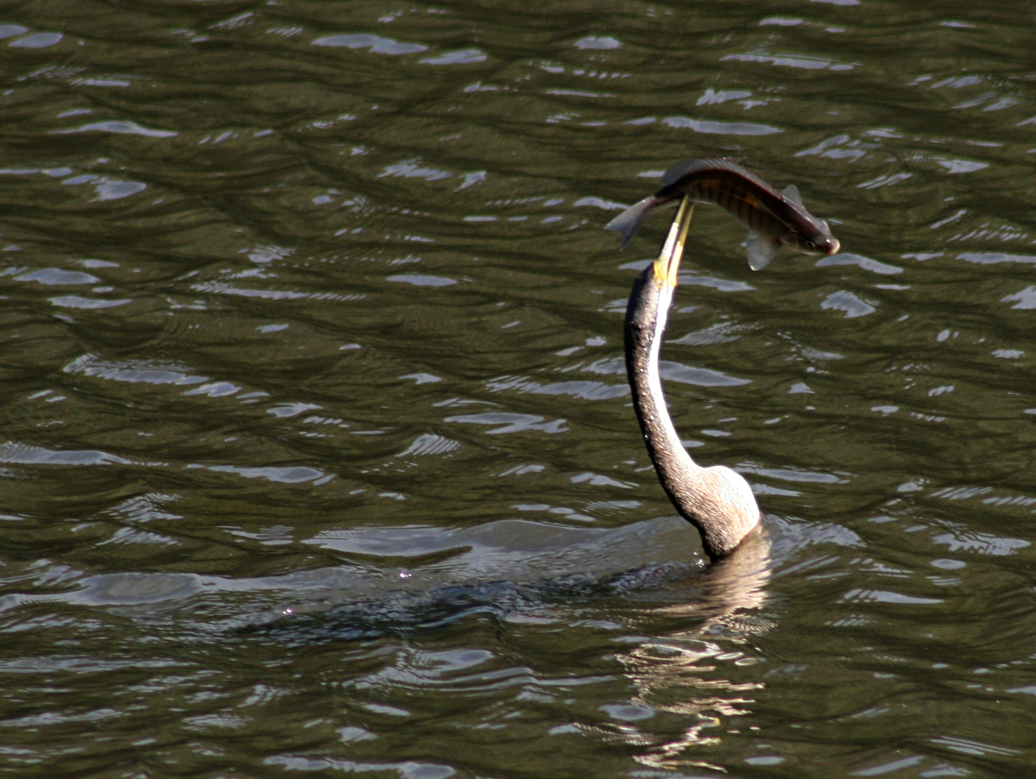 An Australian Darter (Anhinga novaehollandiae) after a successful fishing expedtion in Cooks River, New South Wales, Australia.